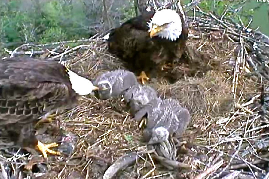 Decorah eagles screenshot from Ustream.tv live cam